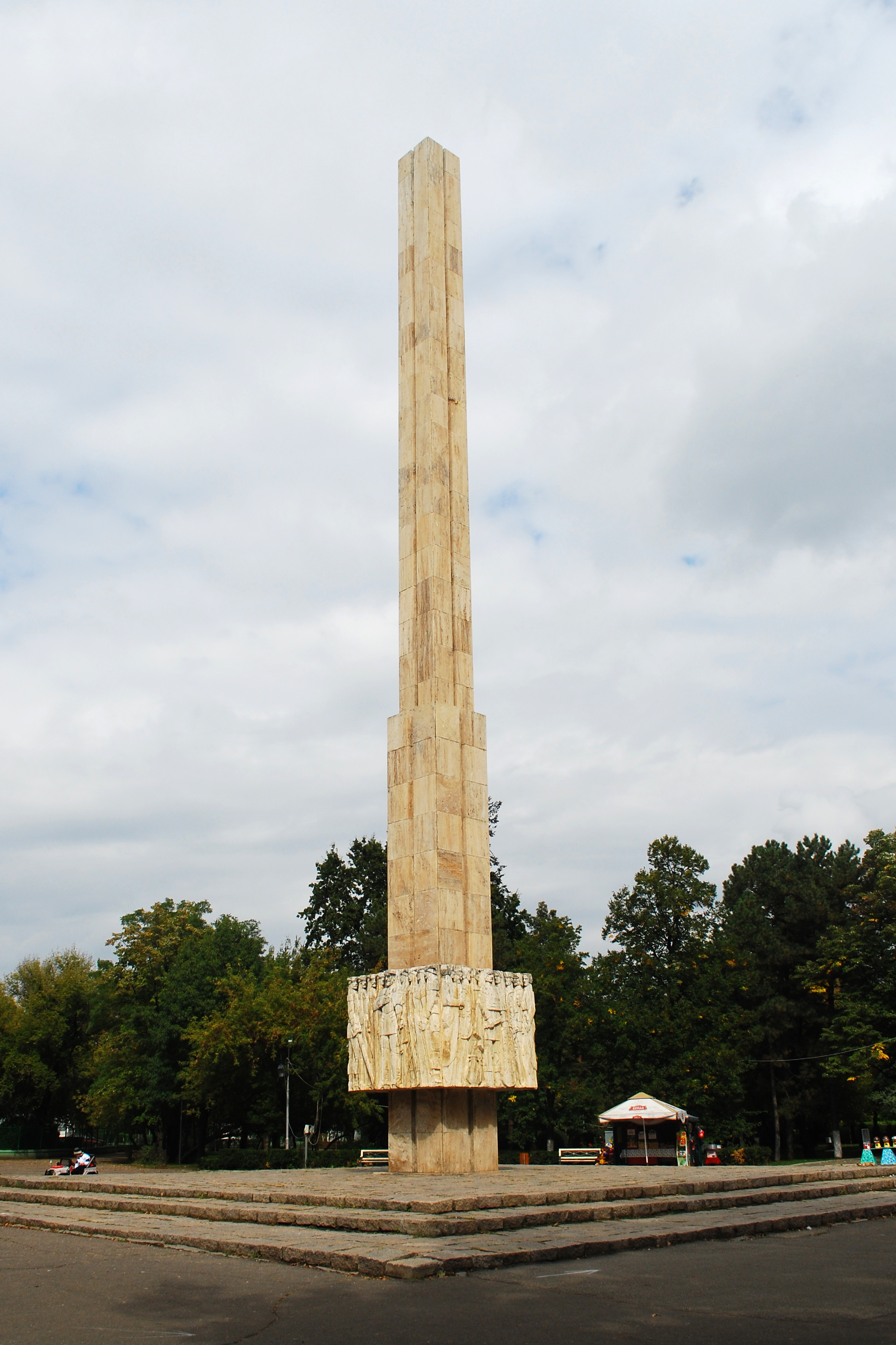 The "Buzău 1600" obelisk in Crâng Park, Buzău, Romania